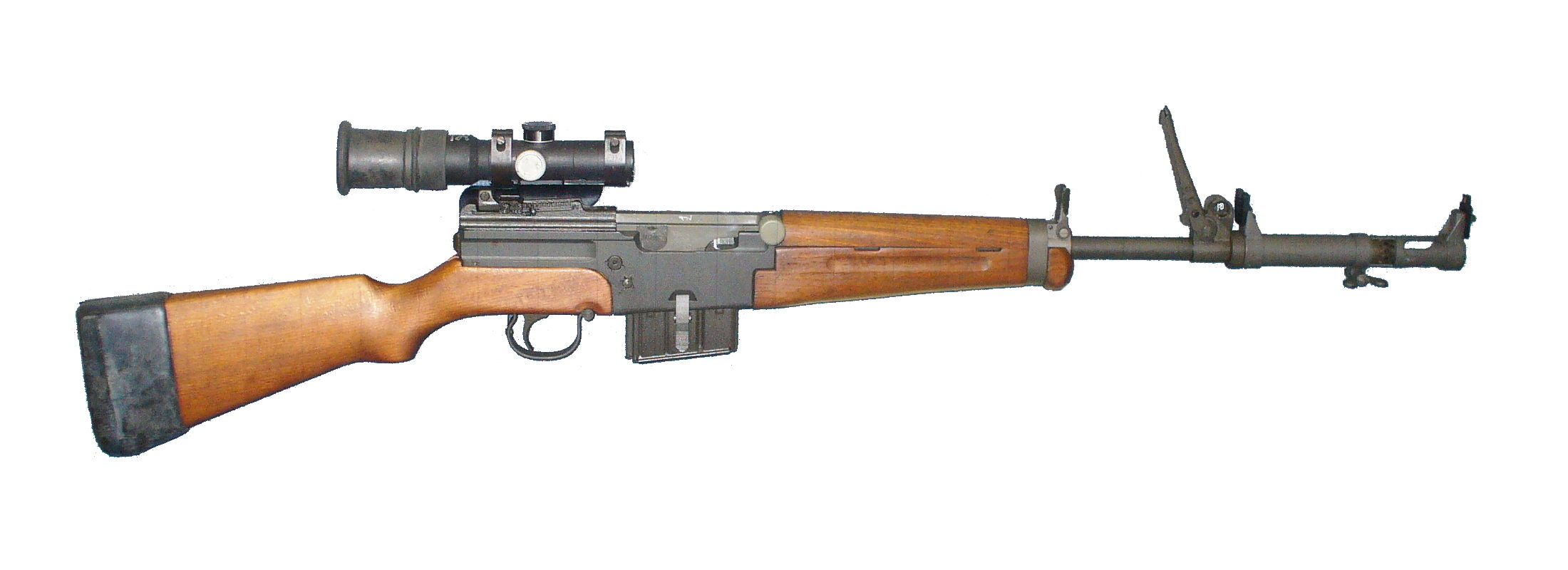 MAS 49/56, French self-loading rifle with a grenade launcher and "Modele 1953" APX L806 (SOM) telescopic sight mounted